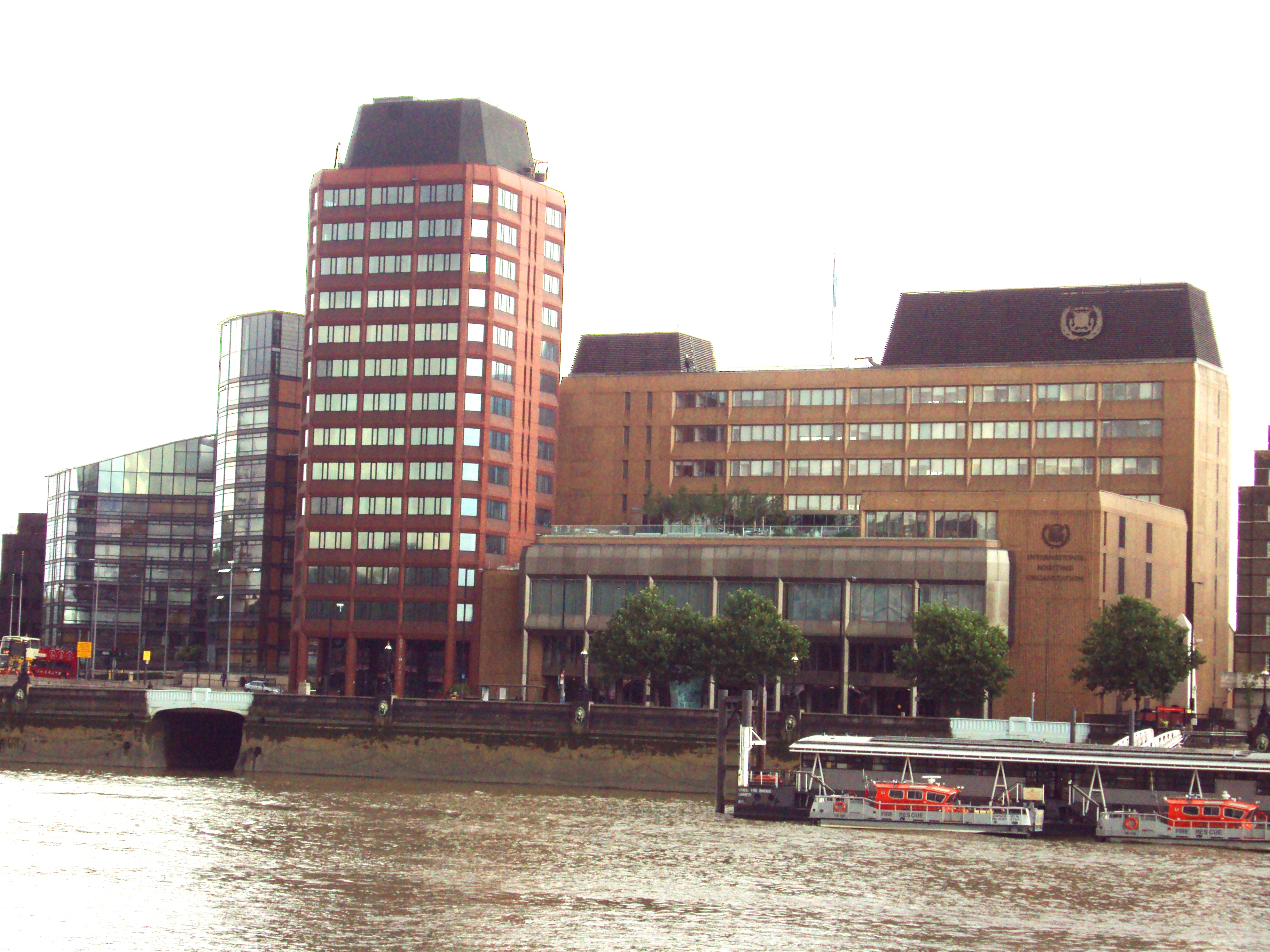 Looking across the Thames towards the International Maritime Organization Headquarters, London.